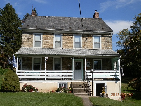 Rev. John Rosbrugh (Revolutionary war chaplain) house built approx. 1769. Modern picture.